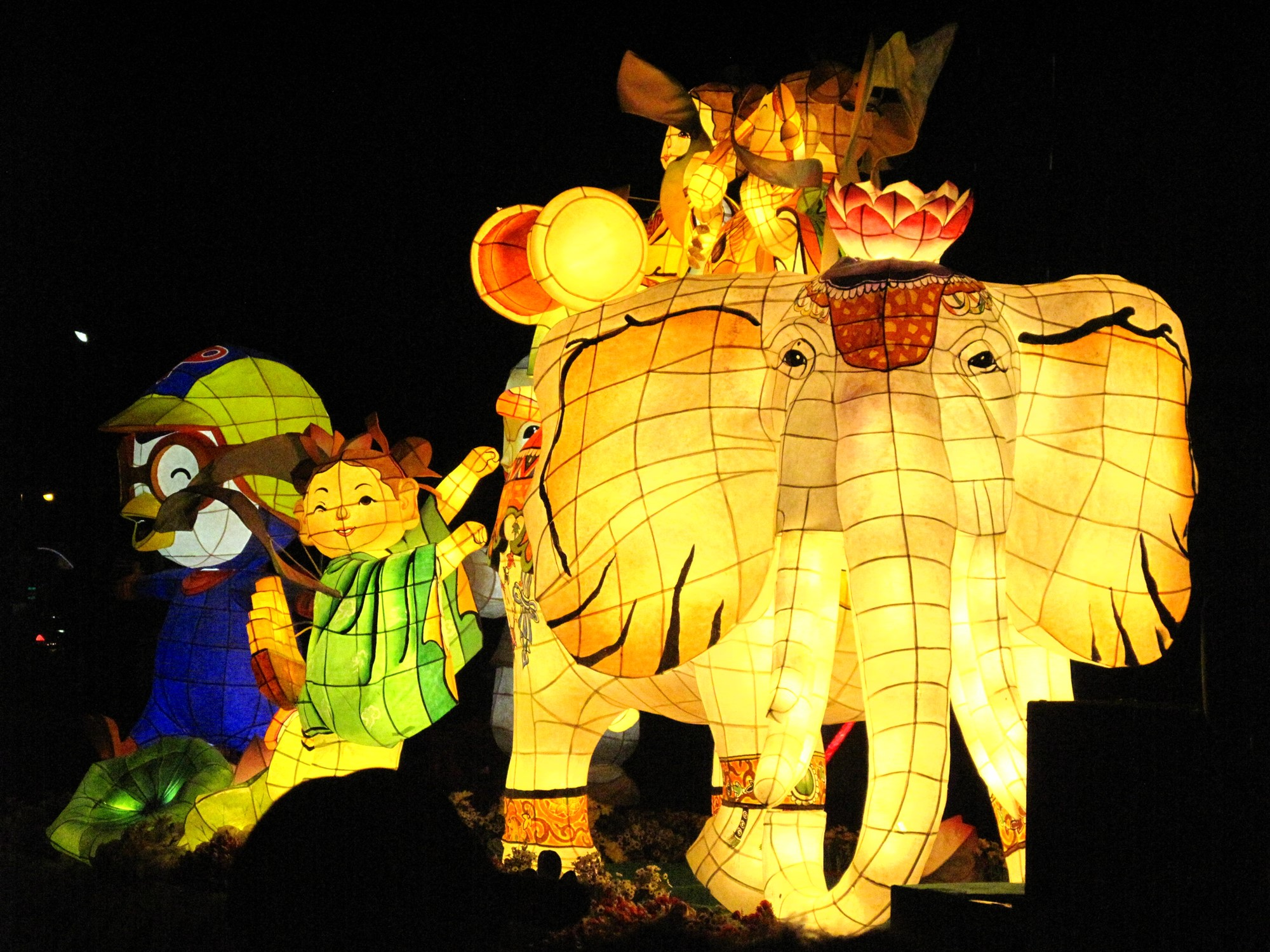 Float for the Buddha's birthday parade in downtown Daegu, South Korea